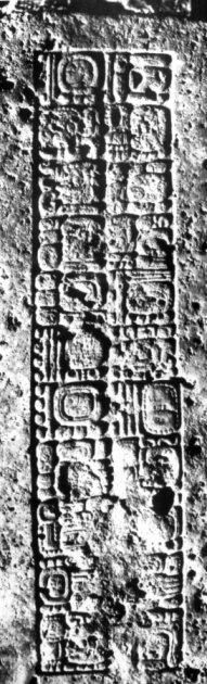 An inscription in Maya hieroglyphics from the site of Naranjo, (now in Peten,Guatemala) Stela 10, relating to the reign of king Itzamnaaj K'awil, 784-810.